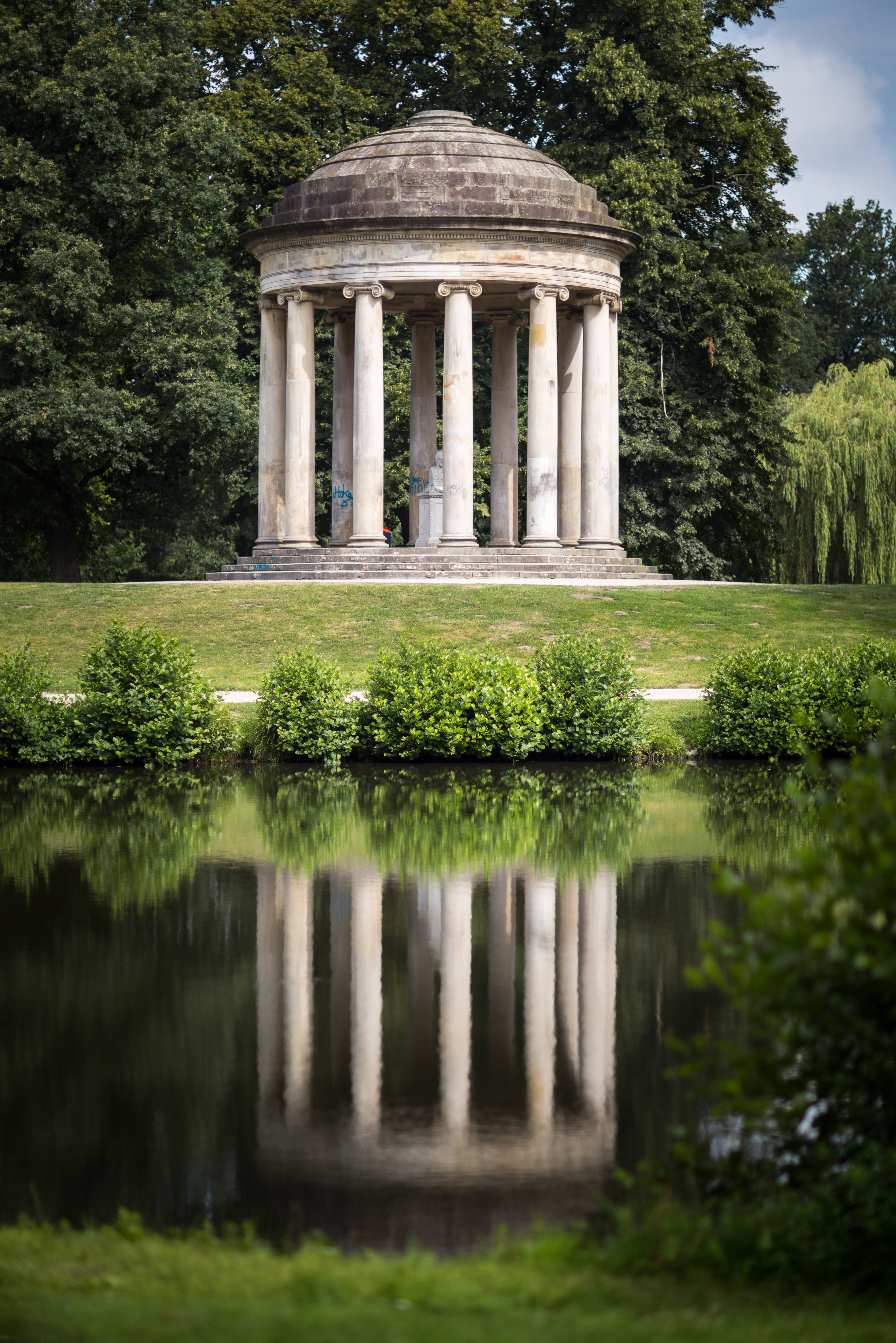 Leibniztempel monument located at Georgengarten in Nordstadt quarter of Hannover, Germany.